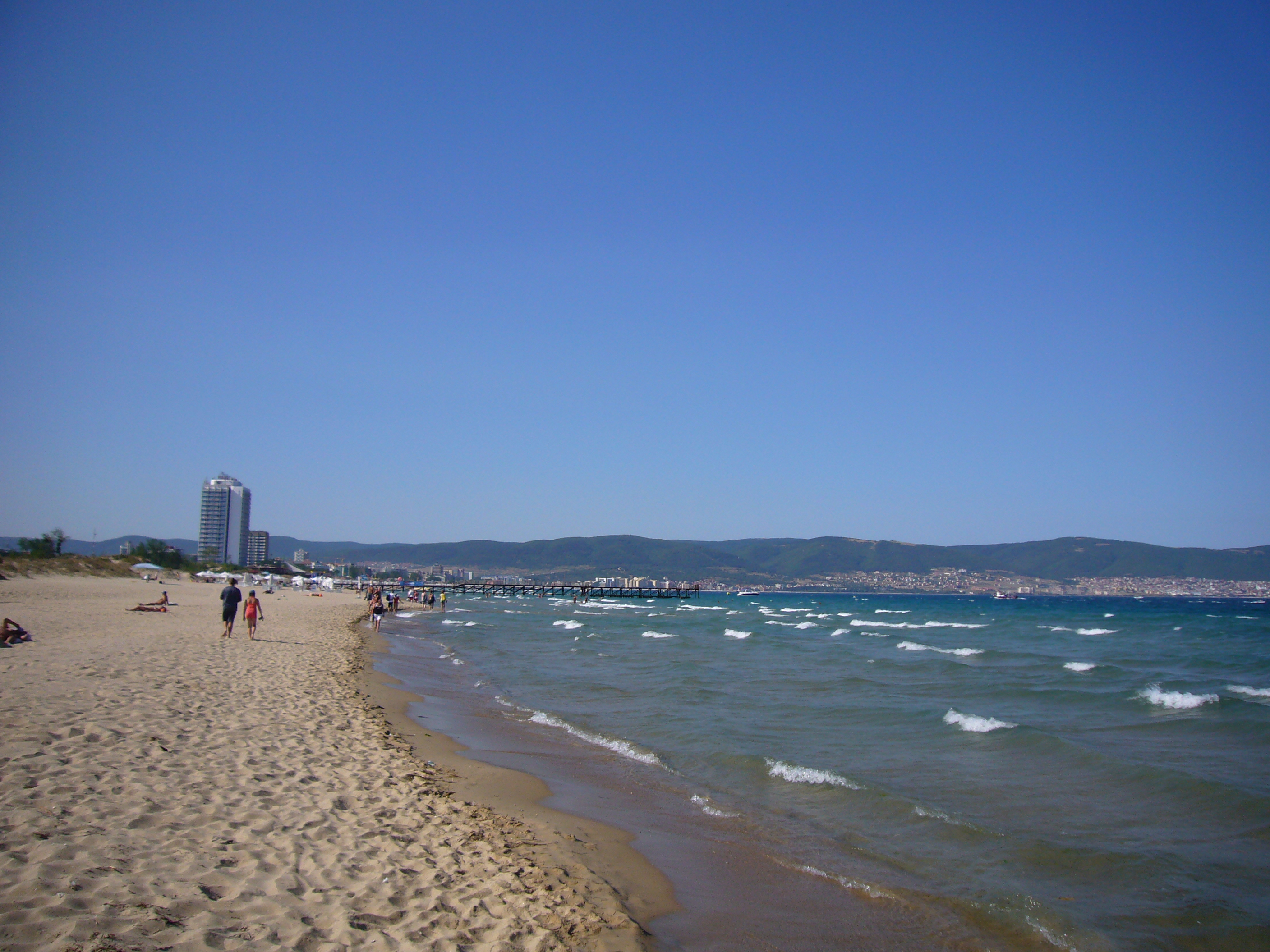 Beach at Burgas Hotel (Sunny Beach-Bulgaria).